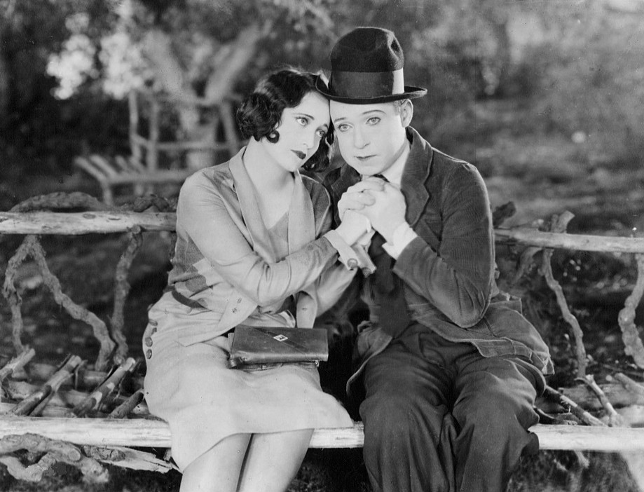 Still of Joan Crawford and Harry Langdon from the American comedy film Tramp, Tramp, Tramp (1926).